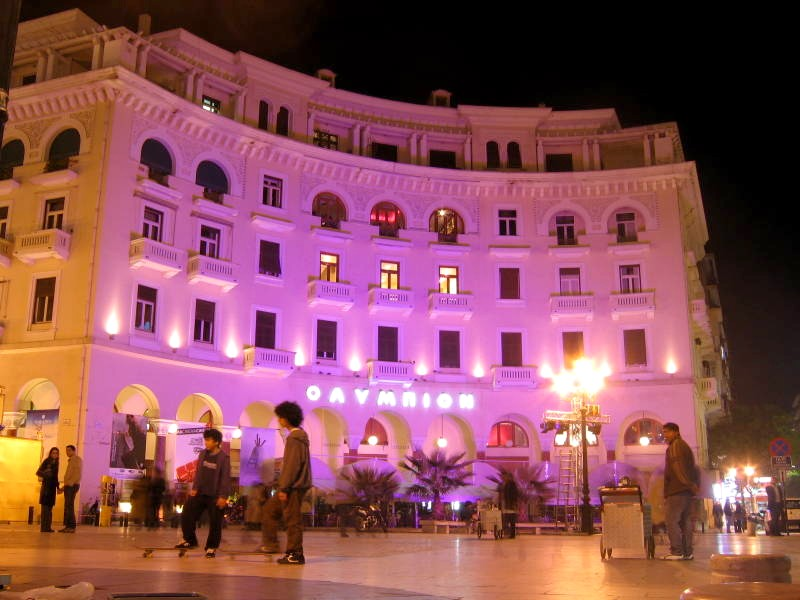 Olympion Cinema. Thessaloniki, Greece. Site of the city's Film Festival.